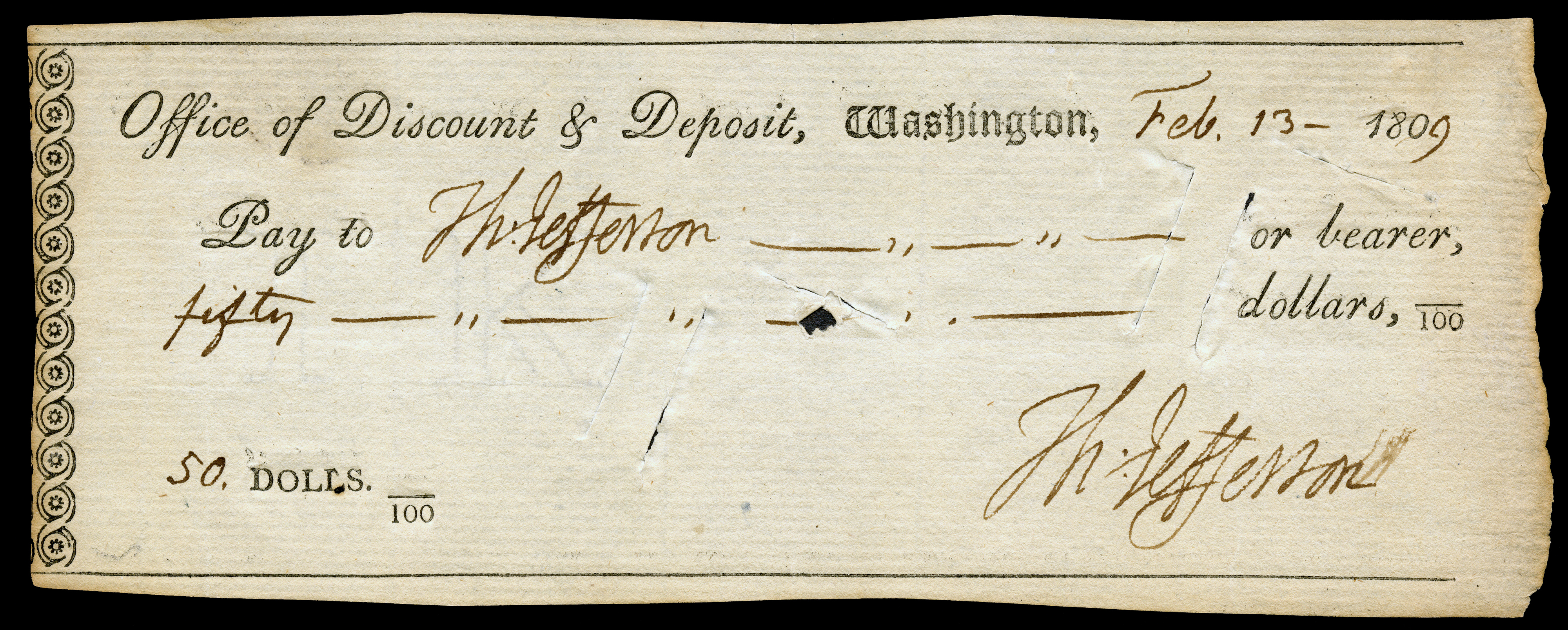 Signed check by Thomas Jefferson (3rd President of the United States) during his second term as President.